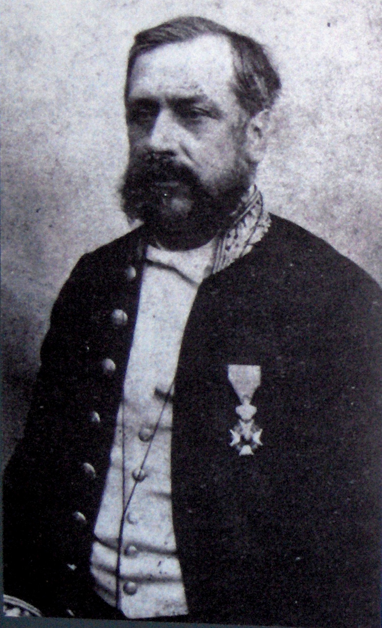 Portrait of Alfred Ronse (1835-1914), a politician from Bruges, Belgium..